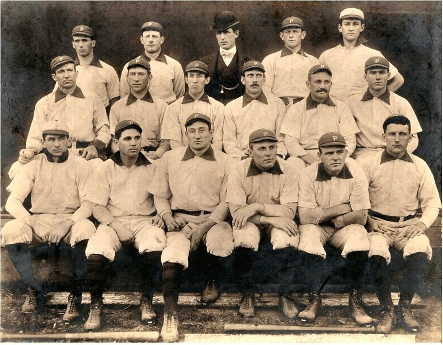 1900 Pittsburgh Pirates baseball teamTop row, left to right: Tommy Leach, Ginger Beaumont, Fred Clarke, Jack Chesbro, Bert HustingMiddle row, left to right: Sam Leever, Deacon Phillippe, Tom McCreery, Bones Ely, Pop Schriver, Tom O'BrienBottom row, left to right: Jiggs Donahue, Jesse Tannehill, Honus Wagner, Jack O'Connor, Jimmy Williams, Claude Ritchey